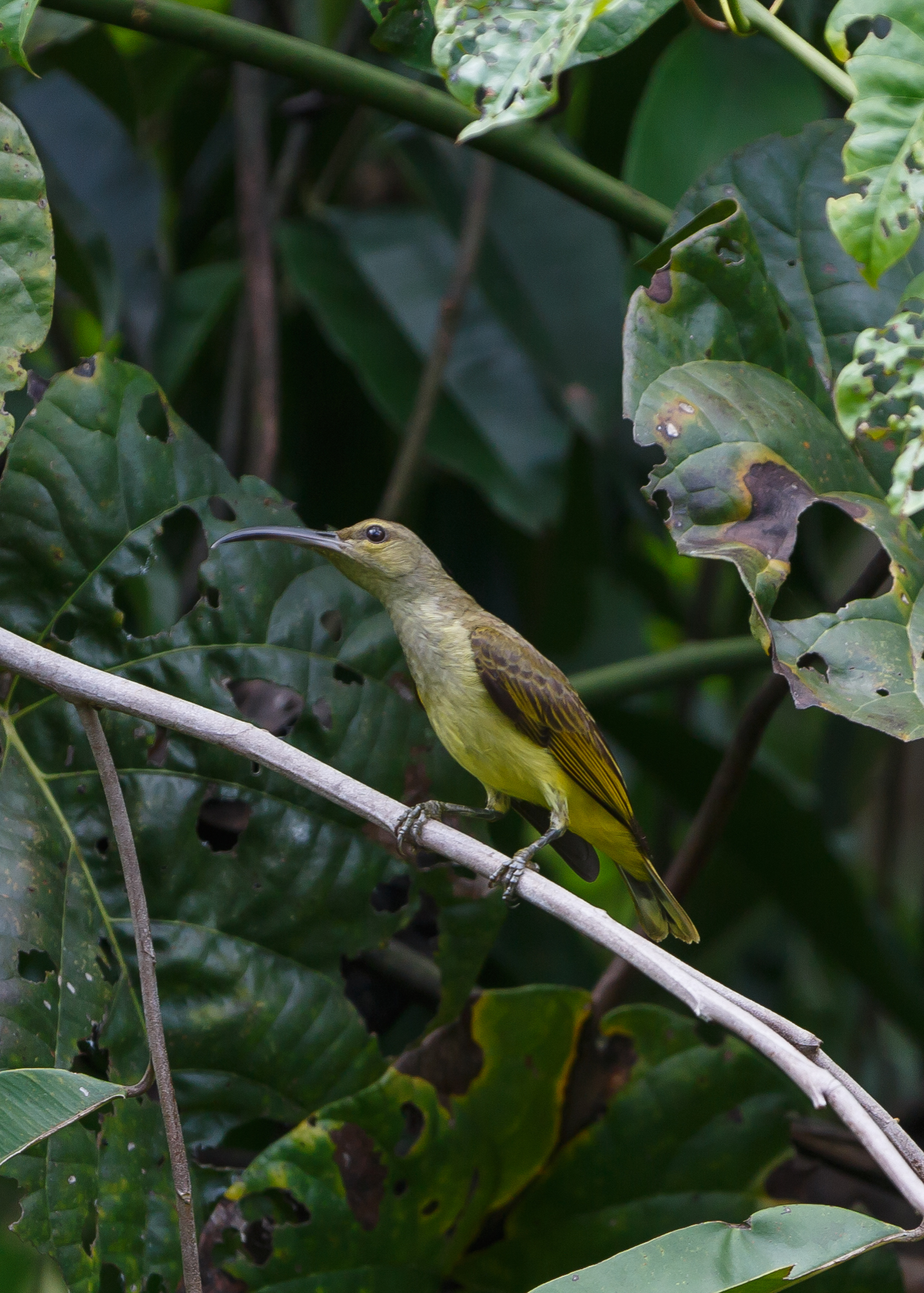 Sandakan, Sabah: A female black-throated sunbird (Aethopyga saturata) (Photo taken in Rainforest Discovery Center)